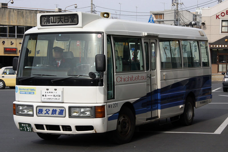 Chichibu Tetsudo Kanko Bus's route bus (Car No.201 / Nissan Civilian) at Chichibu Station, Chichibu, Saitama, Japan